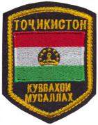 Tajik Armed Forces Shoulder Patch